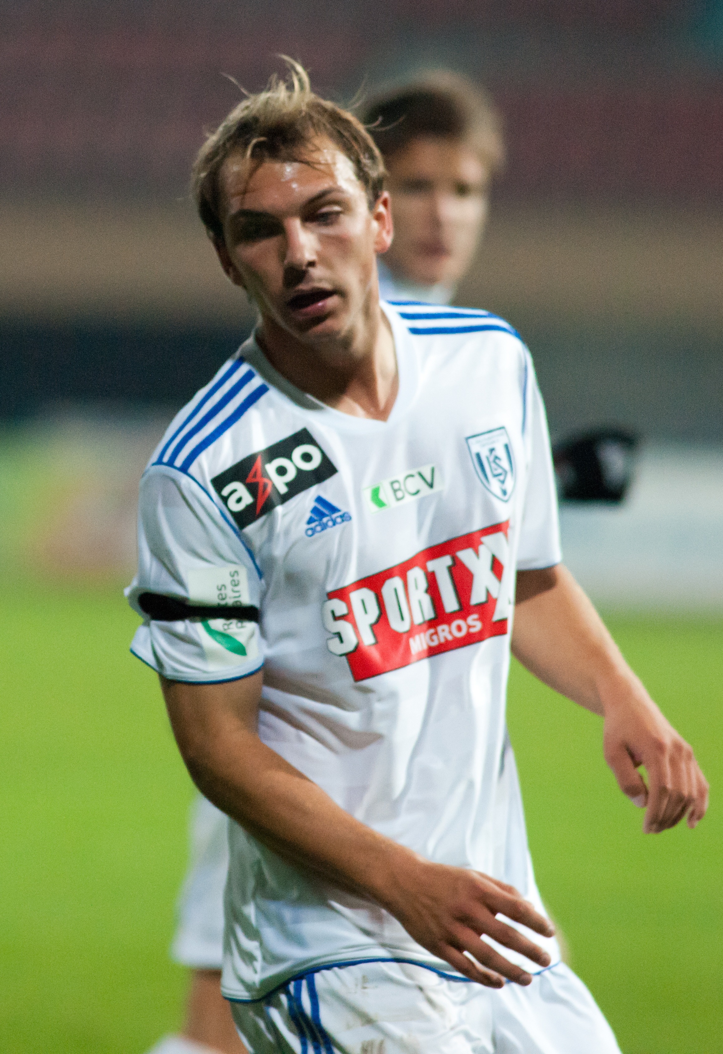 The making of this document was supported by Wikimedia CH. (Submit your project!) For all the files concerned, please see the category Supported by Wikimedia CH. Lausanne Sport vs. FC Thun - 22.10.2011